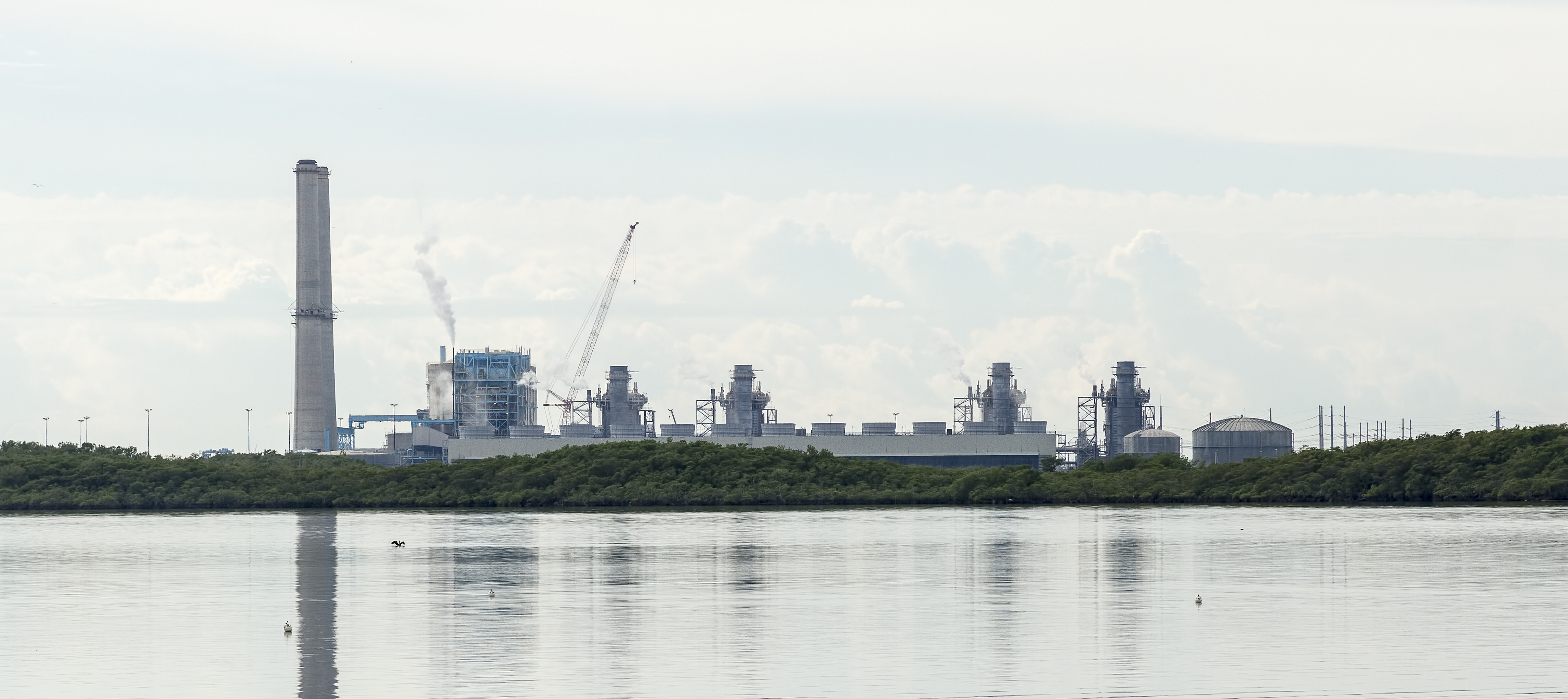 The Turkey Point Generating Station, near Homestead, Florida, USA. The nuclear power plant is hidden by the oil/gas generating plant in the foreground from this angle.